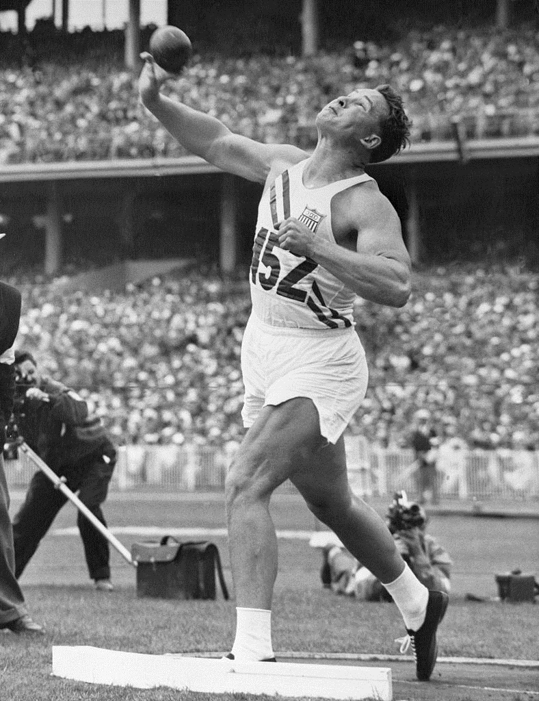 1956 Press Photo Parry O'Briend Tosses Shot For New Olympic Record - fux01293